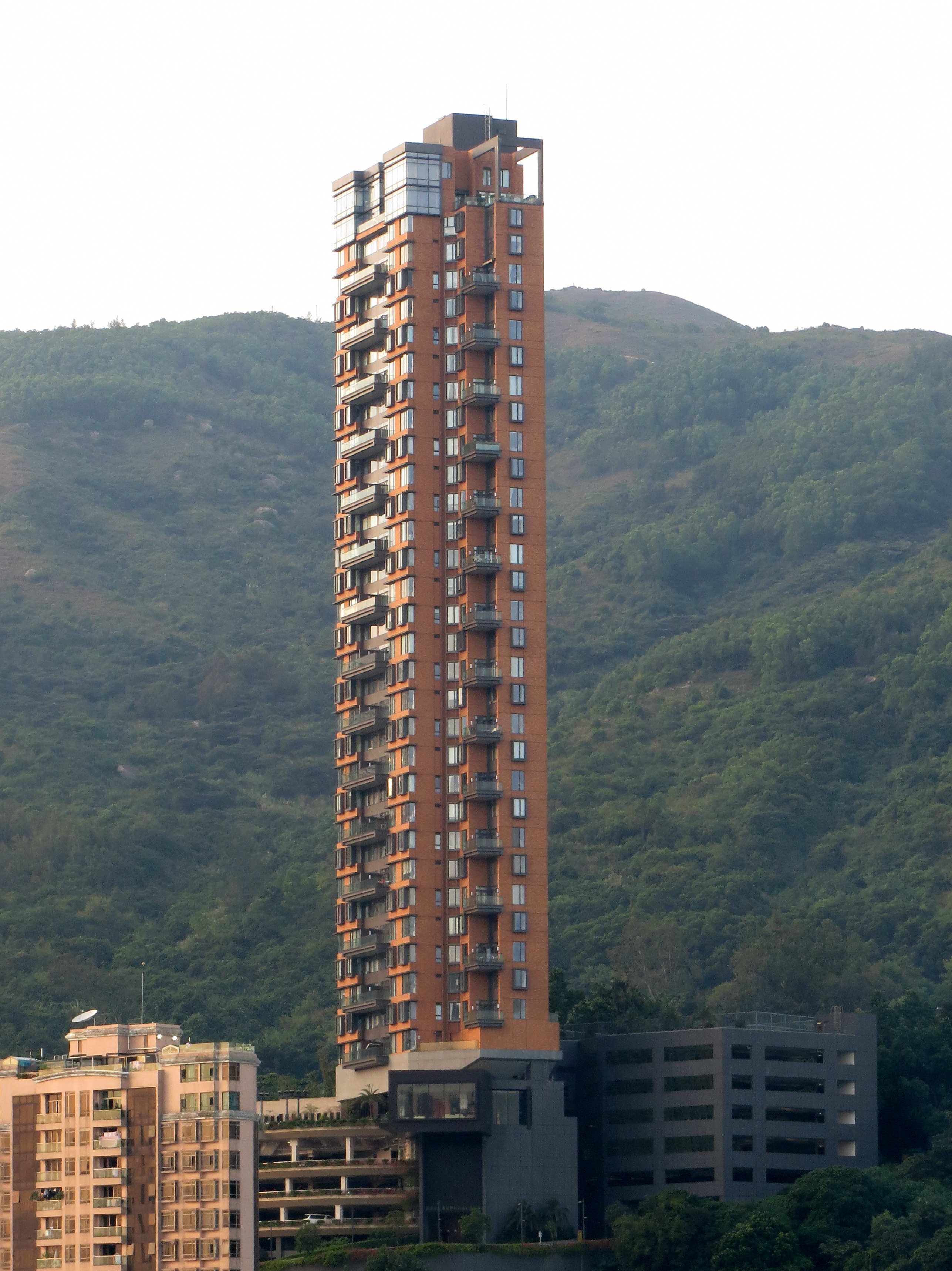 The Westminster Terrace, Yau Lai Road, Tsuen Wan, New Territories, Hong Kong.